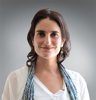 Fotografia oficial de Maria Jose Zaldivar como Ministro